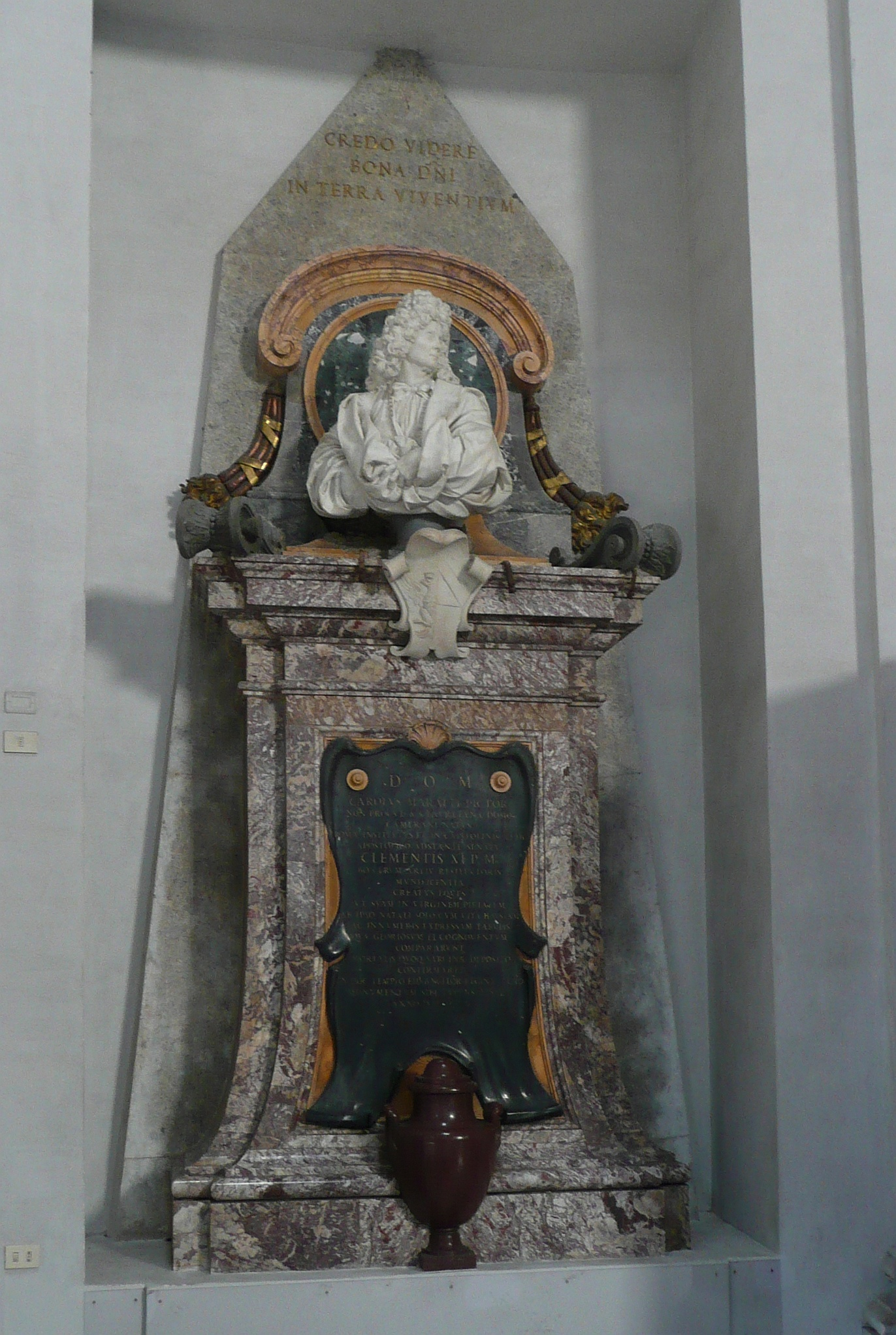 Tomb of Carlo Maratta in S. Maria degli Angeli in Rome